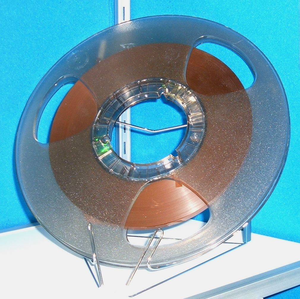 Professional reel-to-reel audio recording tape. Note large hub hole.